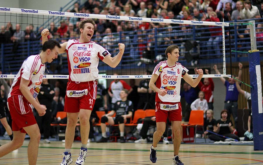 ValePa celebrating season 2008